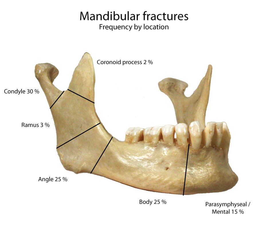 Photo of the mandible demonstrating the frequency of mandibular fractures by location.